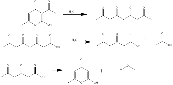 Chemical reaction of synthesis of Triacetic Acid Lactone completed by Collie.